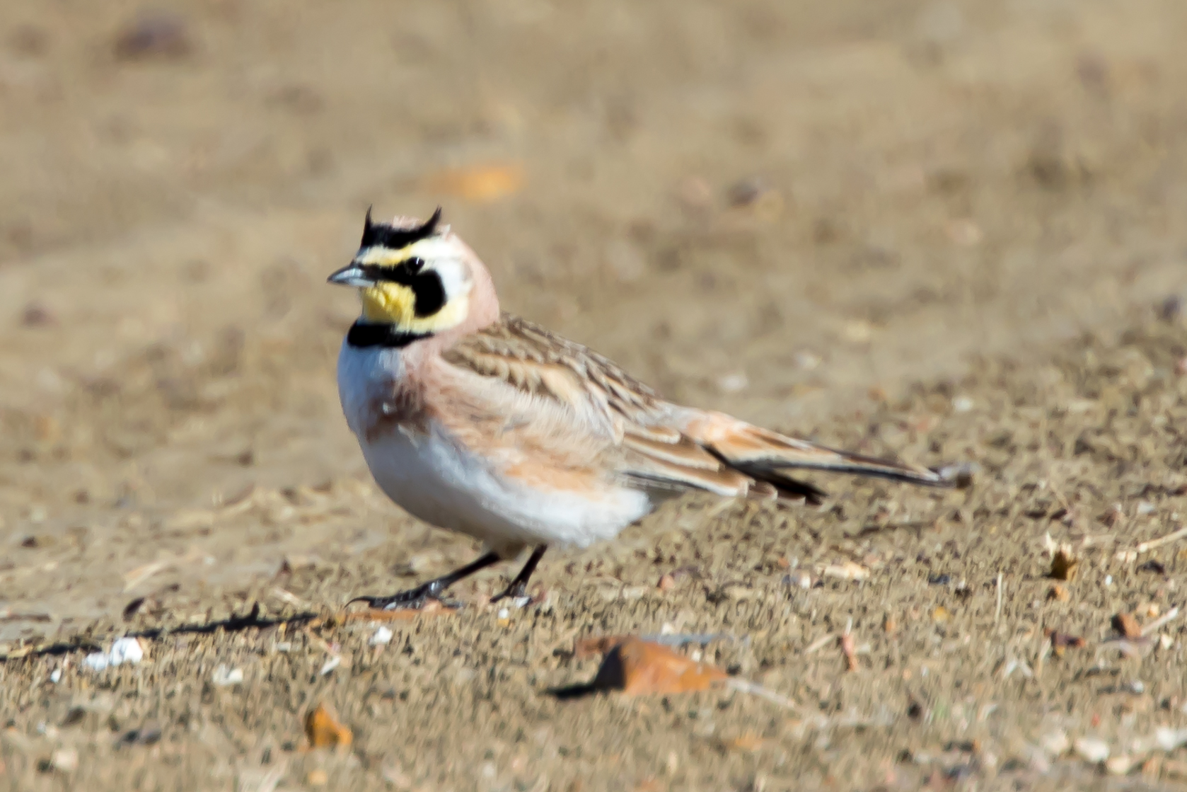 nr Briggsdale, Northern Plains, Colorado